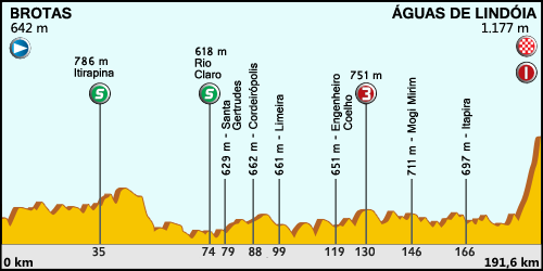 Profile of the 5th stage of the 2014 Volta Ciclística de São Paulo